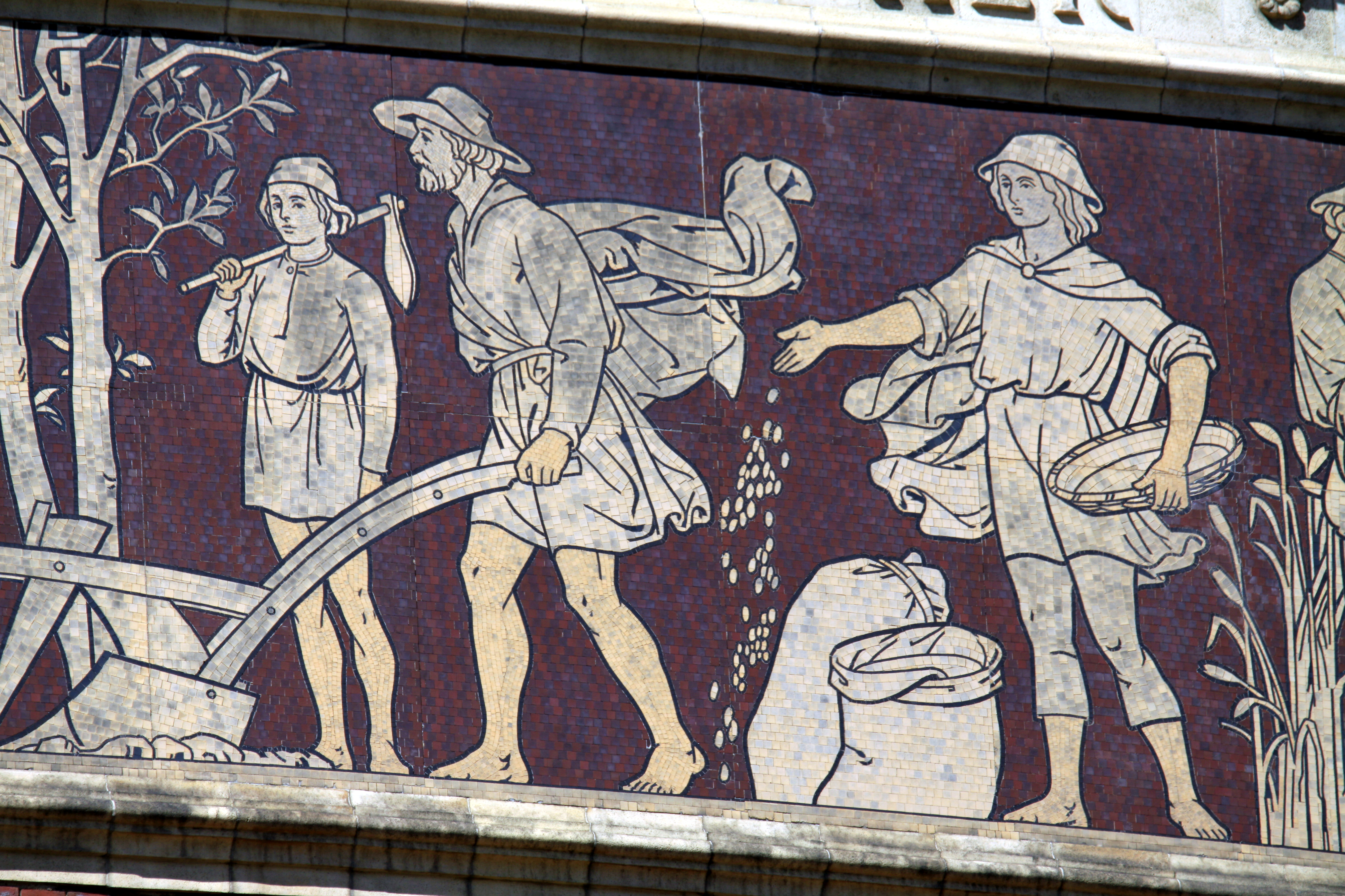 Frieze on the Royal Albert Hall in the City of Westminster, London, Great Britain. The making of this file was supported by Wikimedia UK.